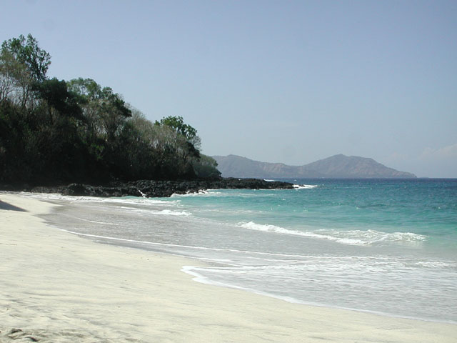 Padangbai Secret Beach 1